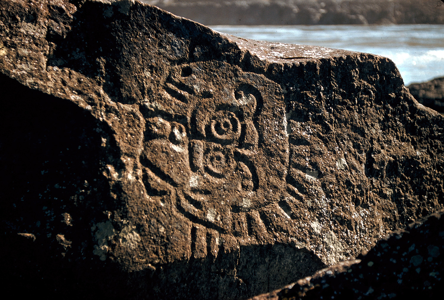 Indian petroglyphs in Columbia River Gorge near The Dalles Dam.